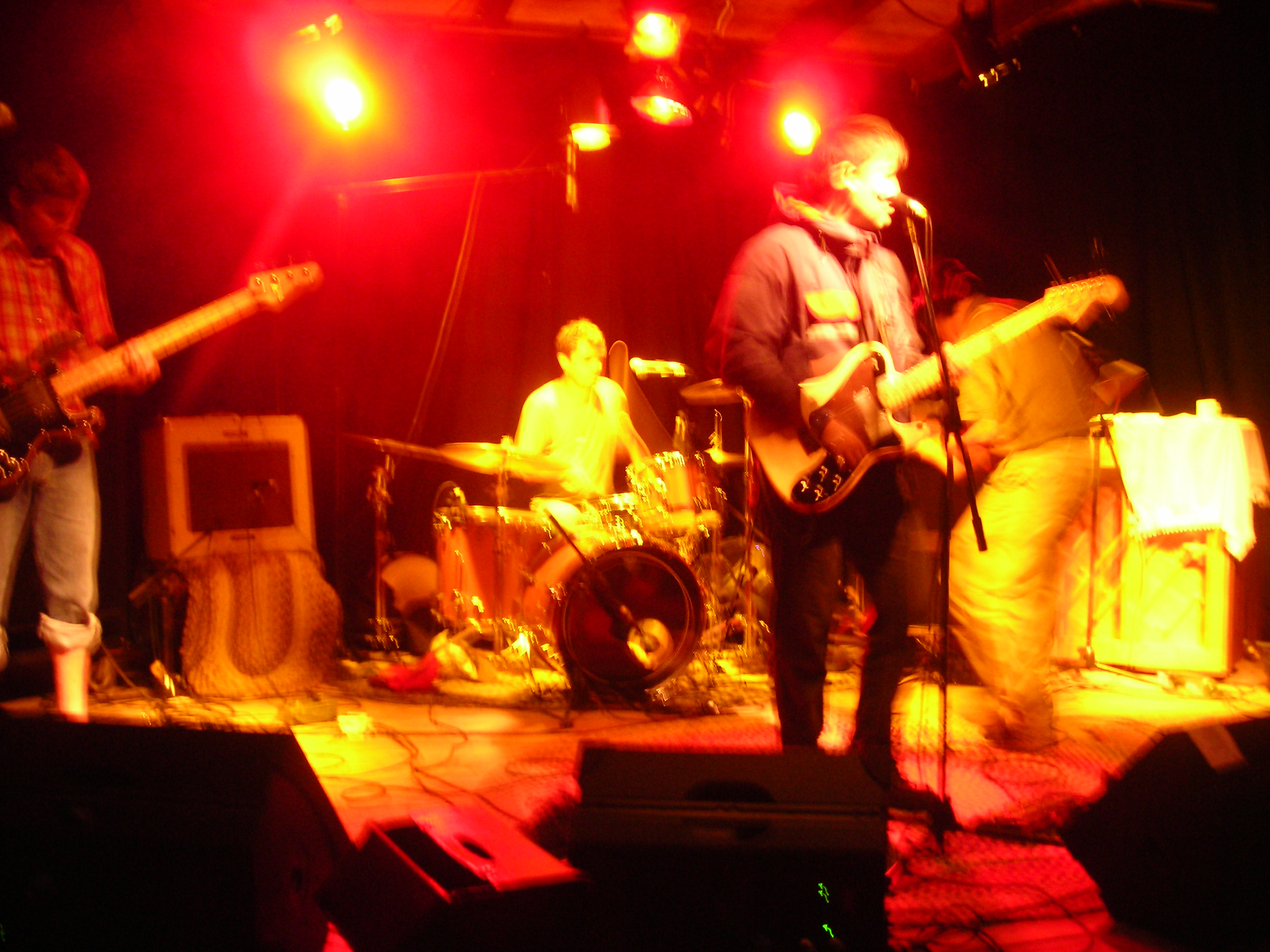 Vancouver indie band in medias res performing at the Woodsong festival on Orcas Island, Washington.